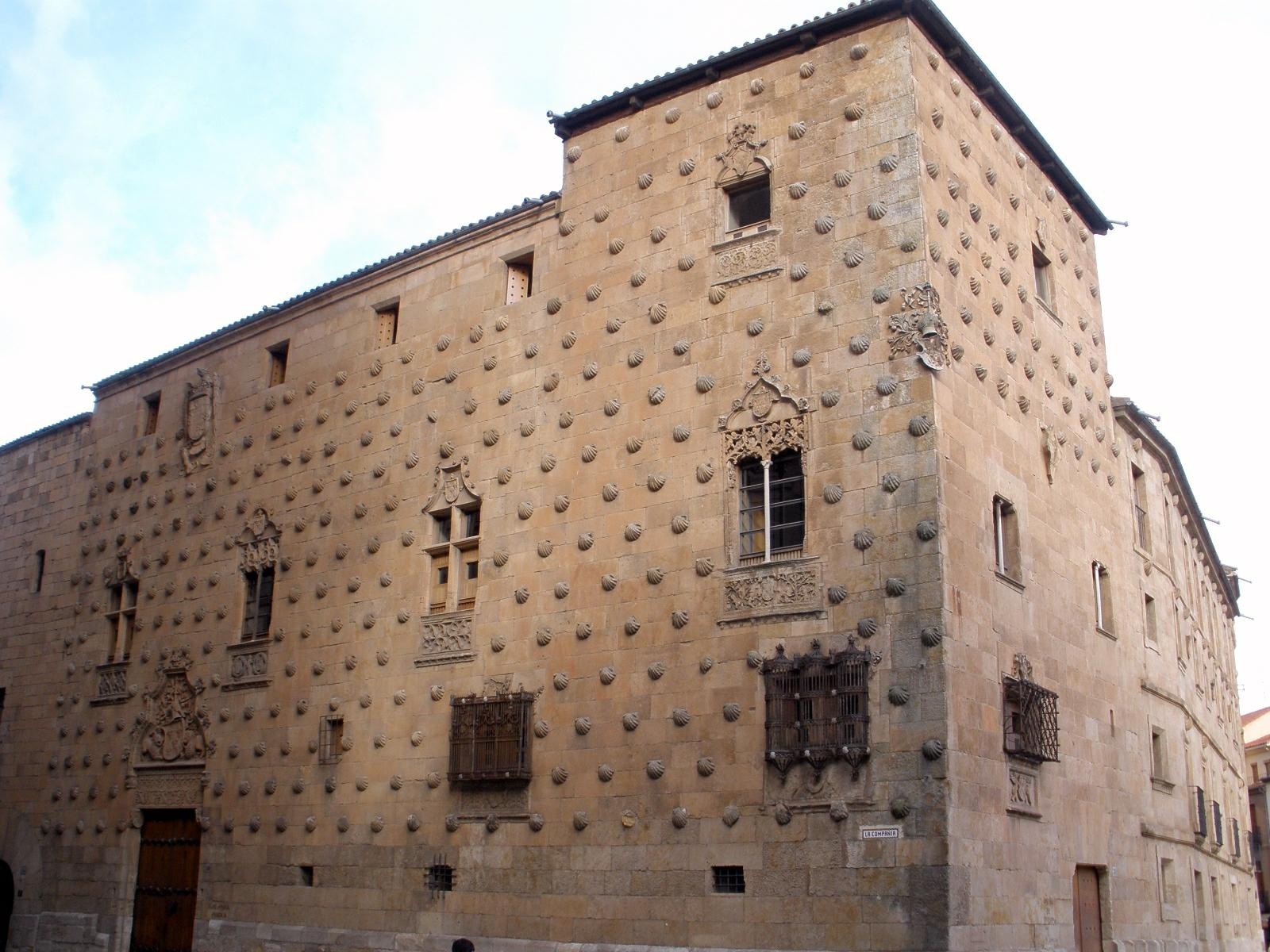 Casa de las Conchas de Salamanca (España).